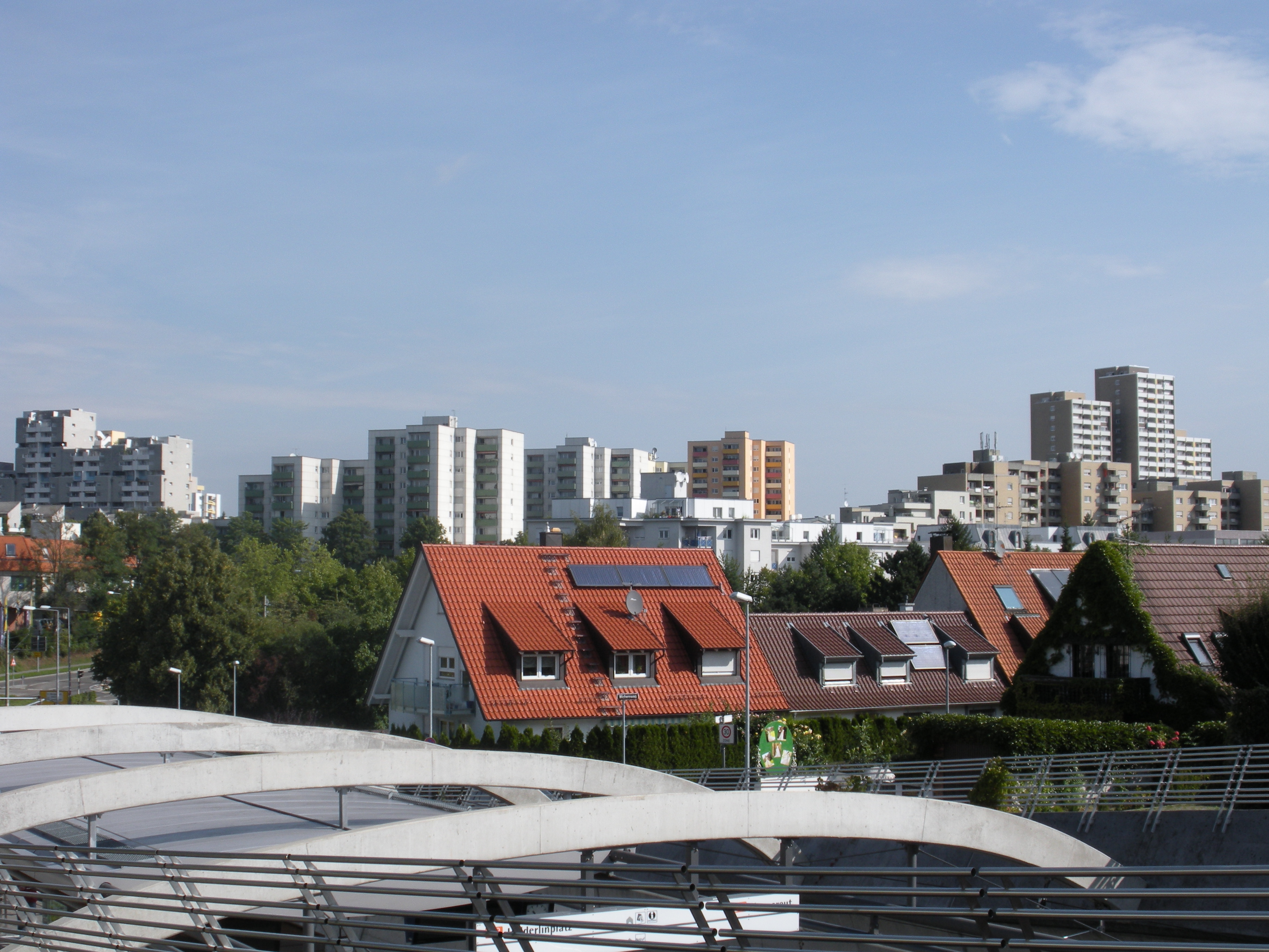 View over Stuttgart-Neugereut